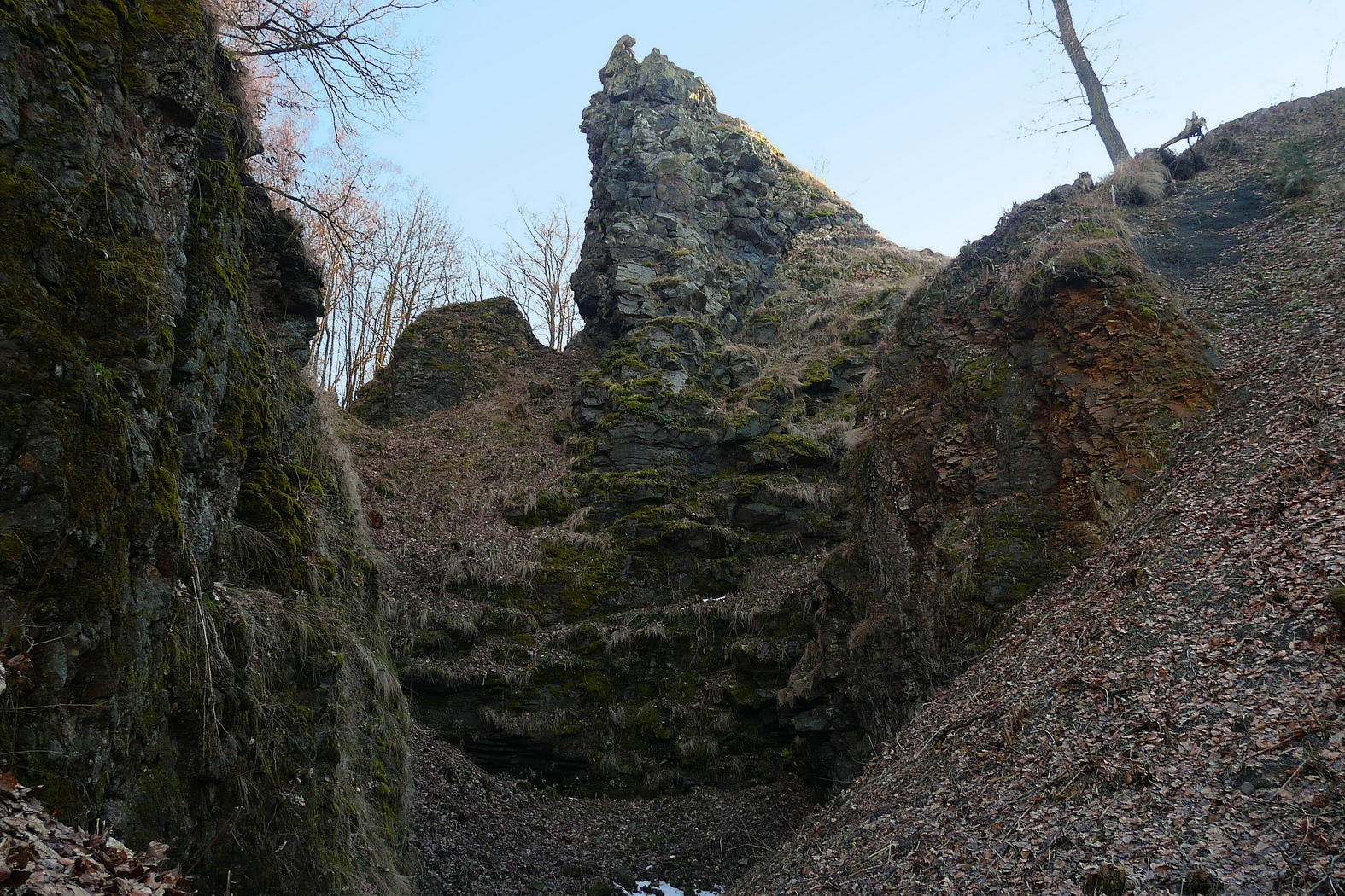 Neovolcanic rock of Káčov